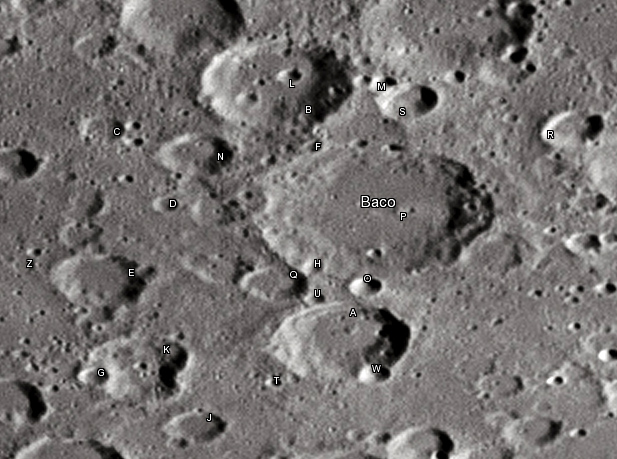 Baco lunar crater as seen from Earth with satellite craters labeled